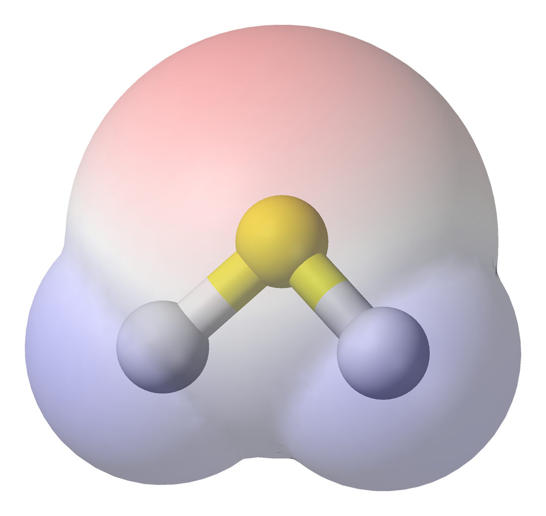 A van der Waals' surface coloured according to charge, superimposed on a ball-and-stick model of the hydrogen sulfide molecule, H2S. Red represents partially negatively charged regions, blue represents partially positively charged regions, and white represents neutral (uncharged) regions. Created in Accelrys DS Visualizer 1.5, edited with Photoshop Elements 3.0.